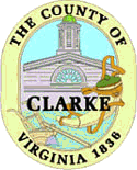 The official county seal of Clarke County, Virginia, dating back from the mid-1980s.